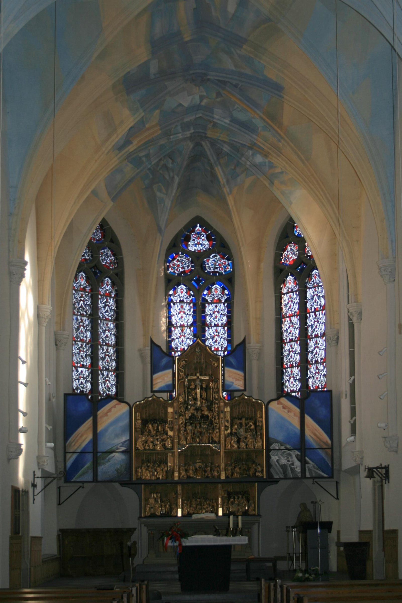 Cultural heritage monument No. 39 in Jülich